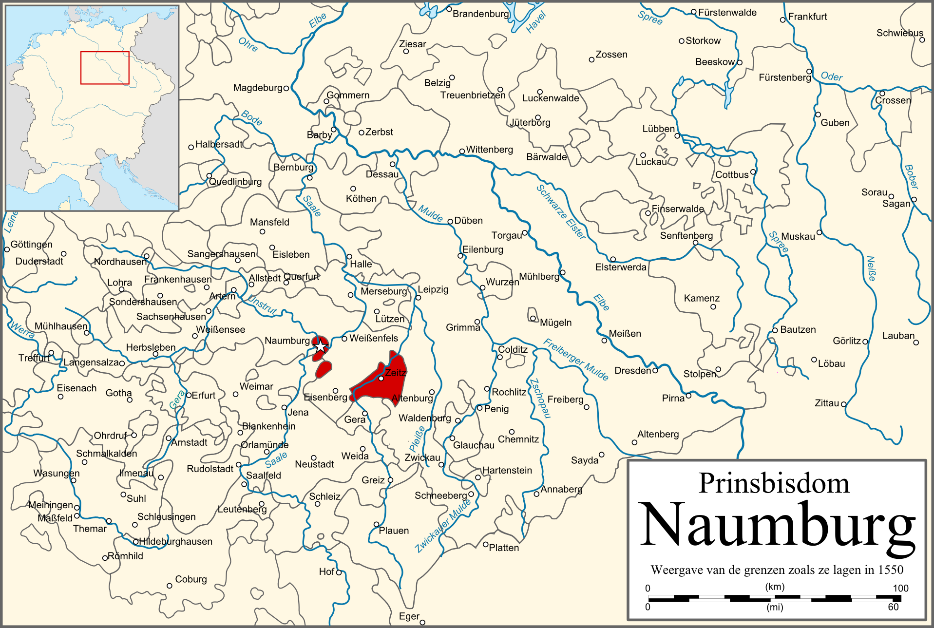 Map of the Prince-bishopric of Naumburg